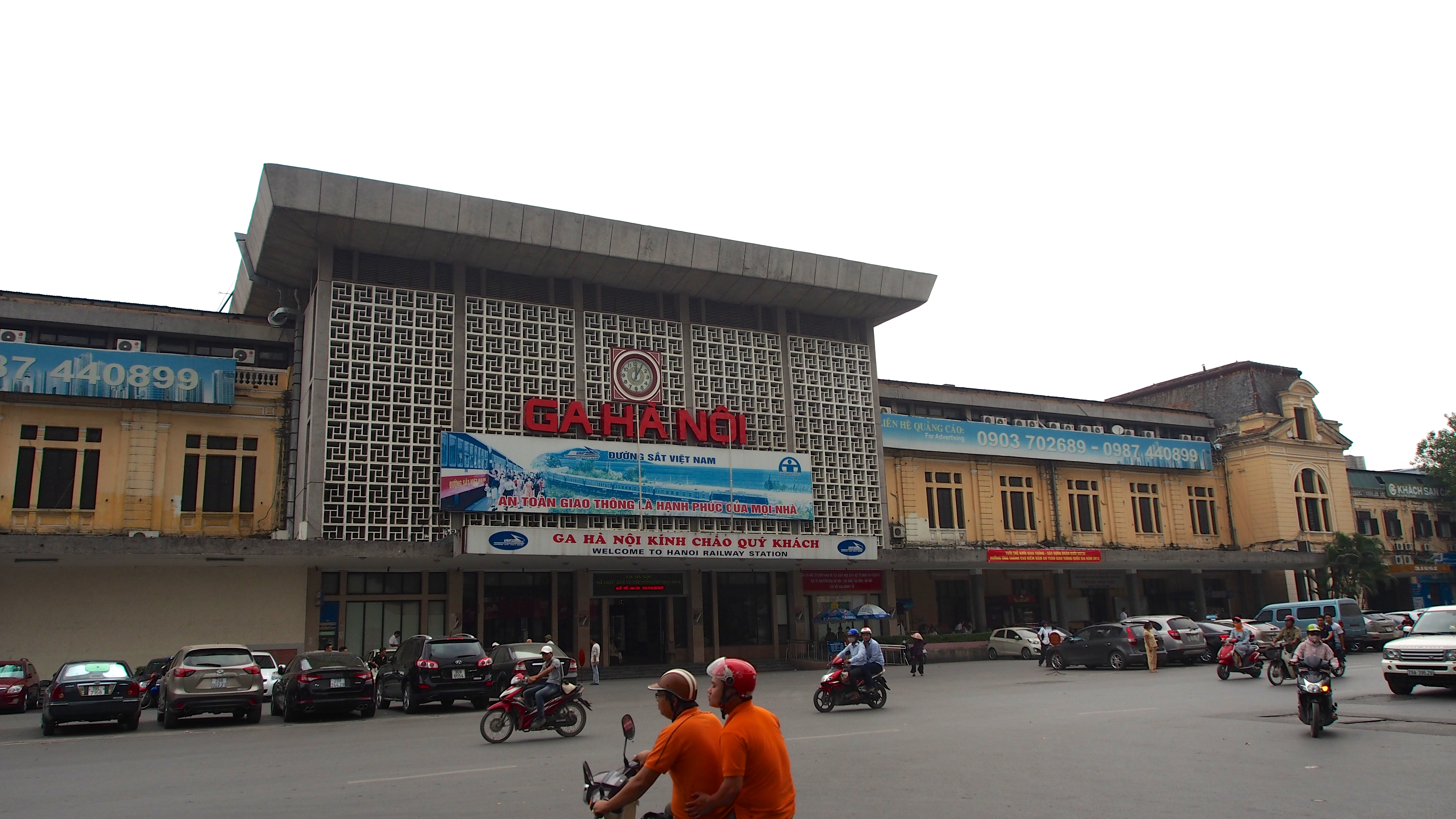 Trains depart here for all parts of the country and twice a week there's a train for Beijing.